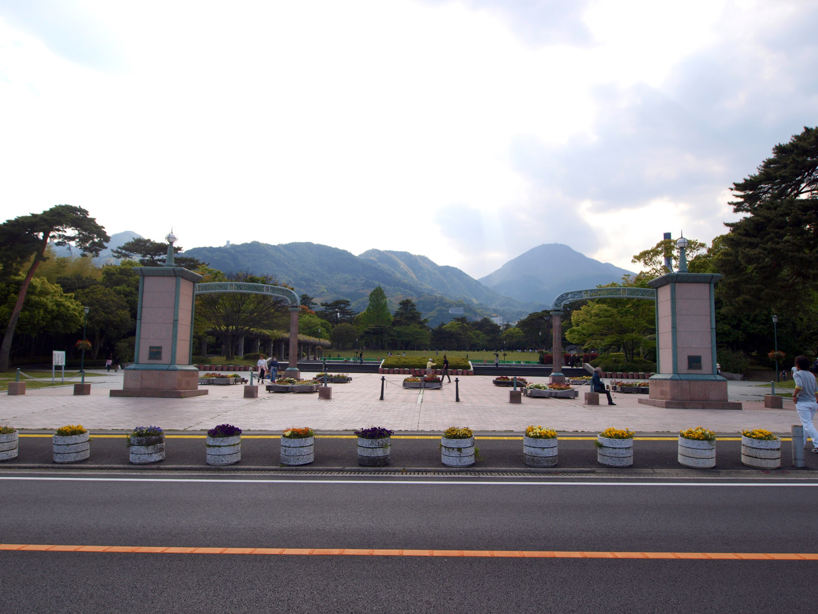 Beppu Park, Beppu City, Oita Prefecture